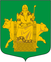 Volosovo (Leningrad oblast), coat of arms